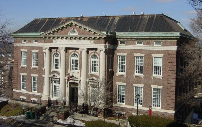 The Pittsburgh Building at Rensselaer Polytechnic Institute, home of the Lally School.